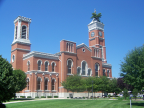 This image appeared on English Wikipedia's Main Page in the Did you know? column on 17 January 2011 (see archives). Object location39° 20′ 15″ N, 85° 29′ 01″ W